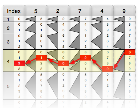 example 5 for Genaille Lucas rulers article